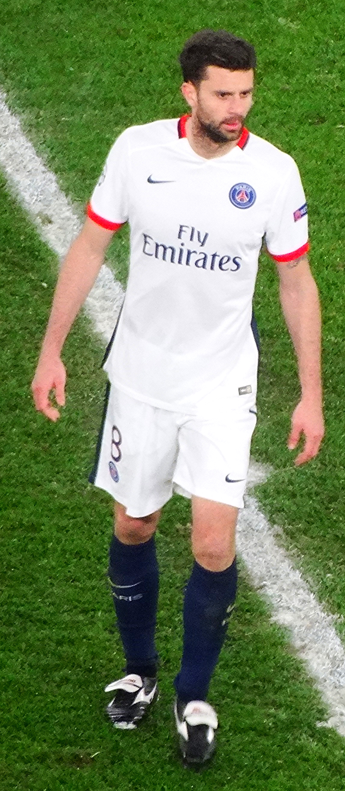 Professional footballer Thiago Motta pictured playing for Paris Saint-Germain F.C. on 9 March 2016